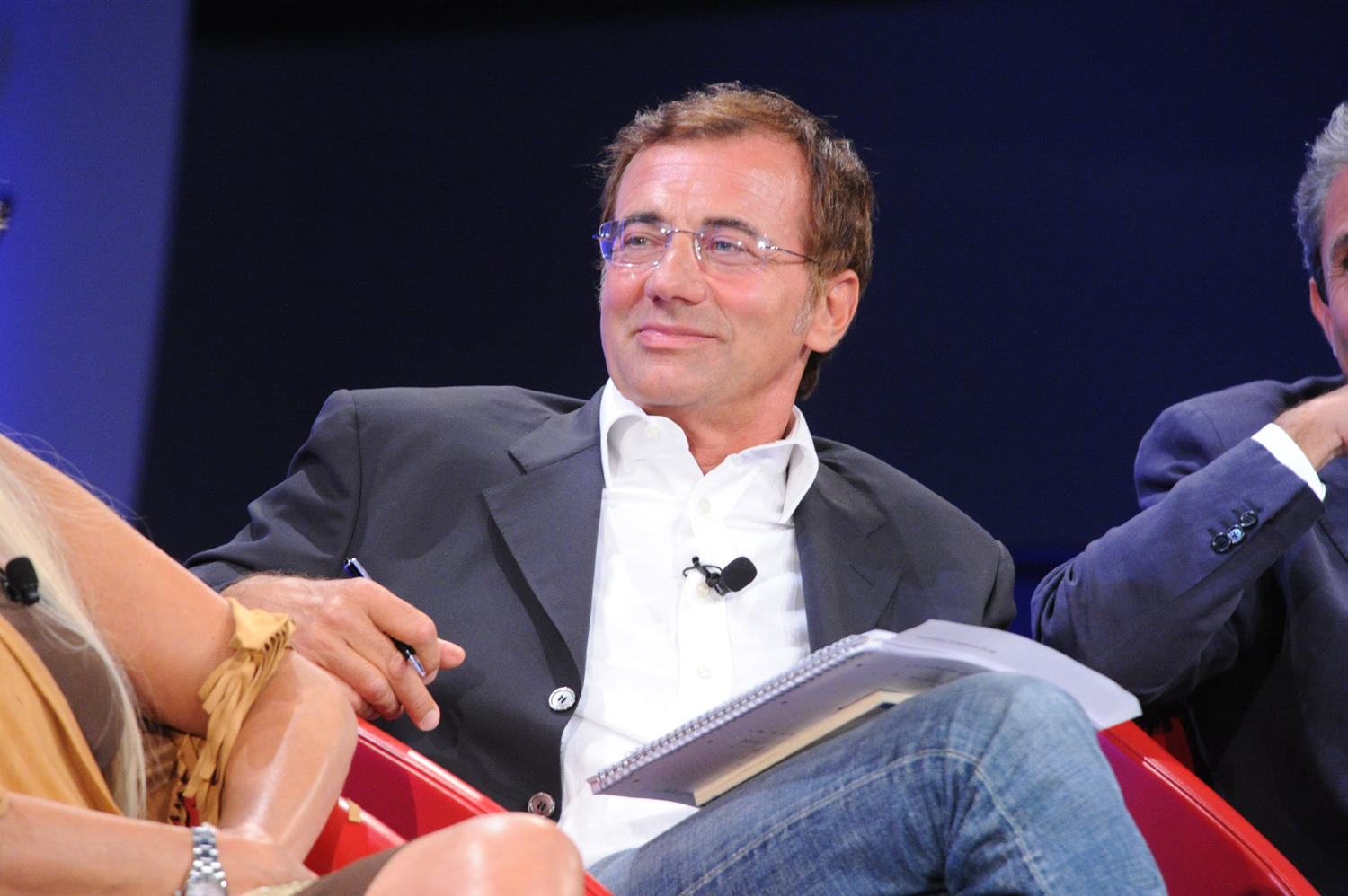 see title.